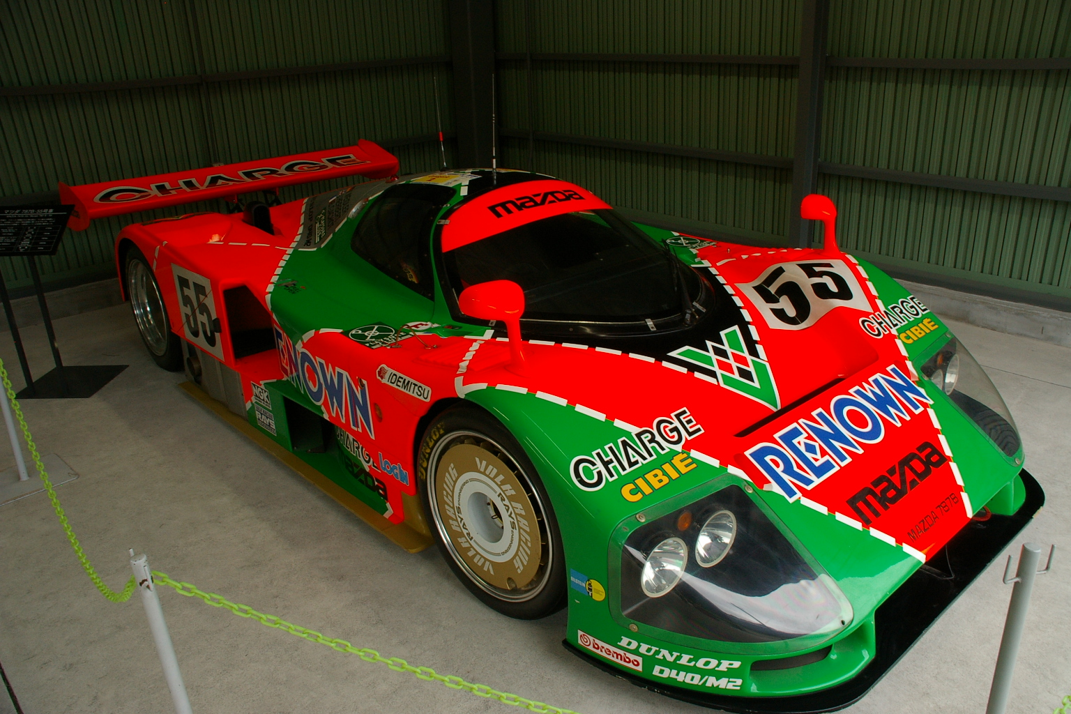 Mazda 787B No.55 in Otaru synthesis museum.